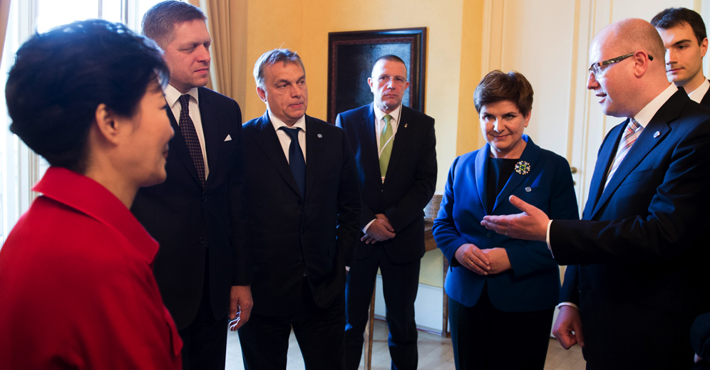 V4 Summit + South Korea in Prague on 3 December 2015